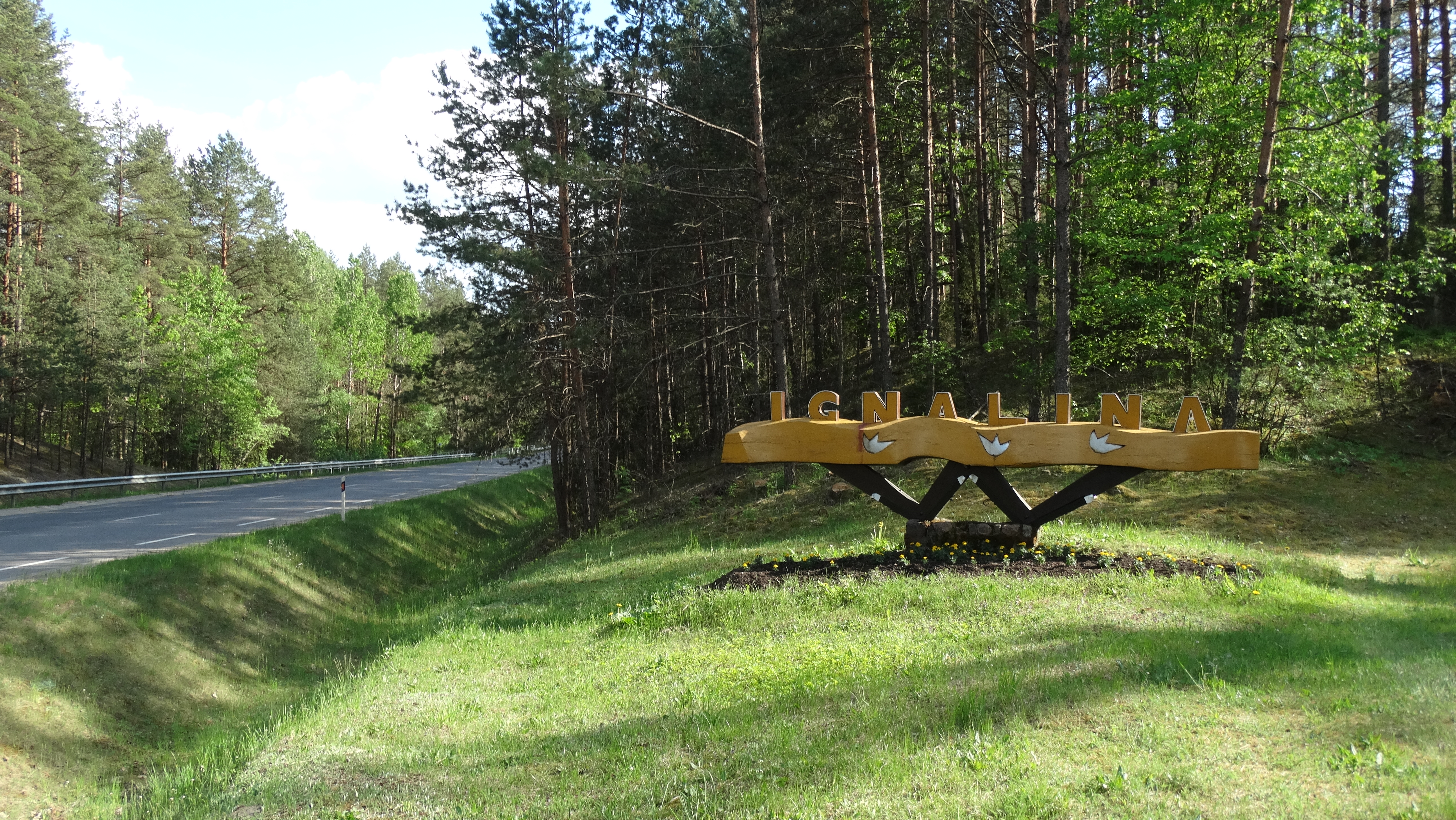 Ignalina, Lithuania